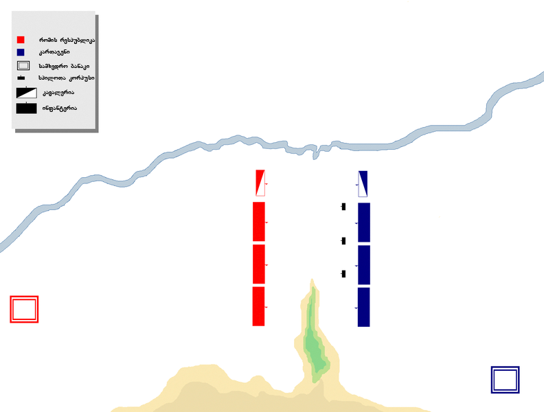 Battle of Metaurus